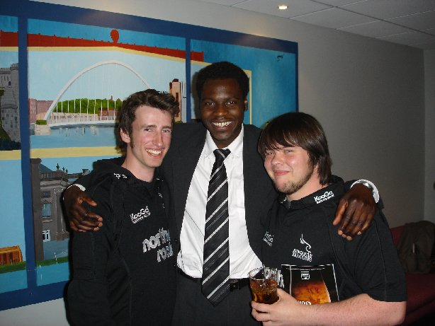 A photo of Eni with a pair of fans taken in Newcastle. Photo taken by myself.